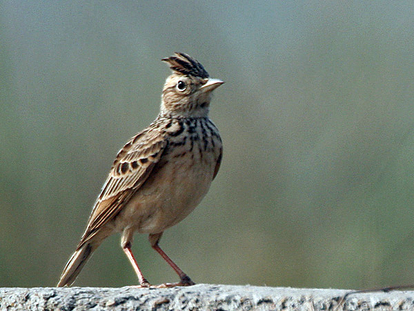 Oriental Skylark (Alauda gulgula) in Kolkata, West Bengal, India.